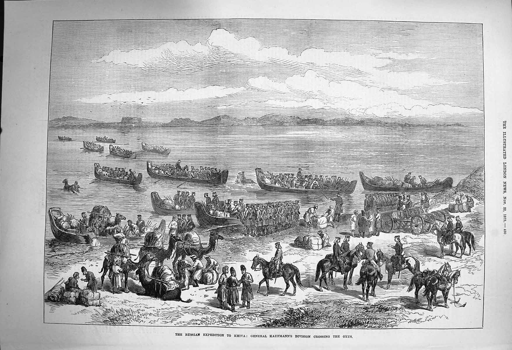 Engraved from the The Illustrated London News that shows the 1873 Russian expedition crossing the Oxus on their way to Khiva